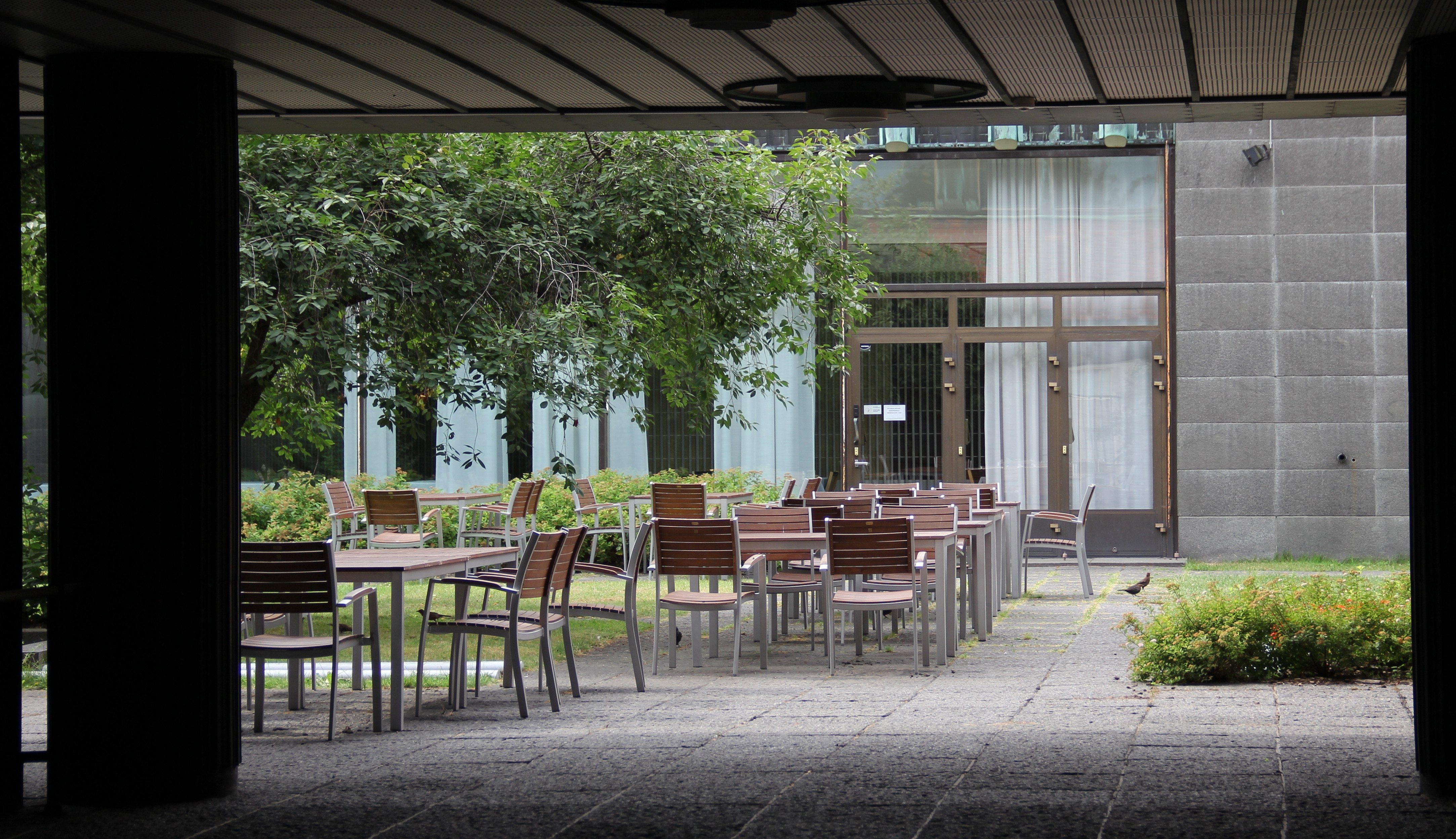 Kansaneläkelaitos headquarters, Taka-Töölö, Helsinki, Finland. Designed by Alvar Aalto, completed in 1956. - Inner yard seen from a terrace.